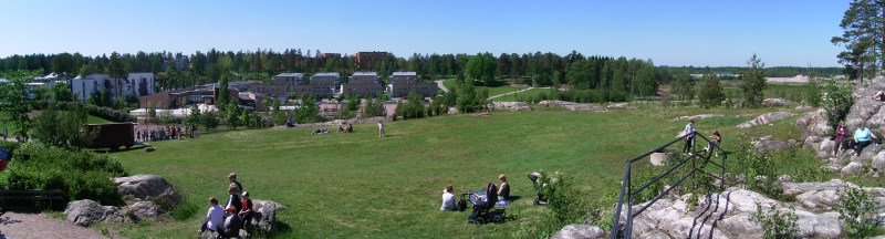 Scenic summer view from Kipinäpuisto park, Kivikko, Helsinki, Finland